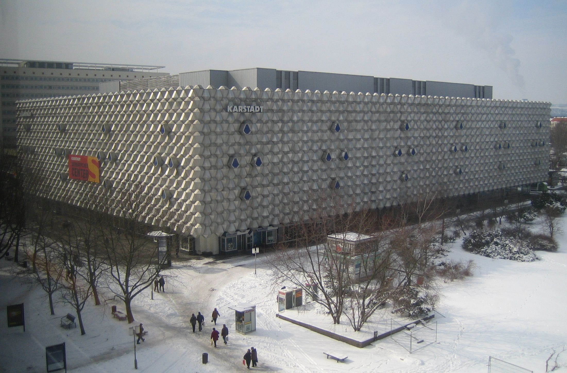 former Centrum department store on the Prager Straße, Dresden, Germany